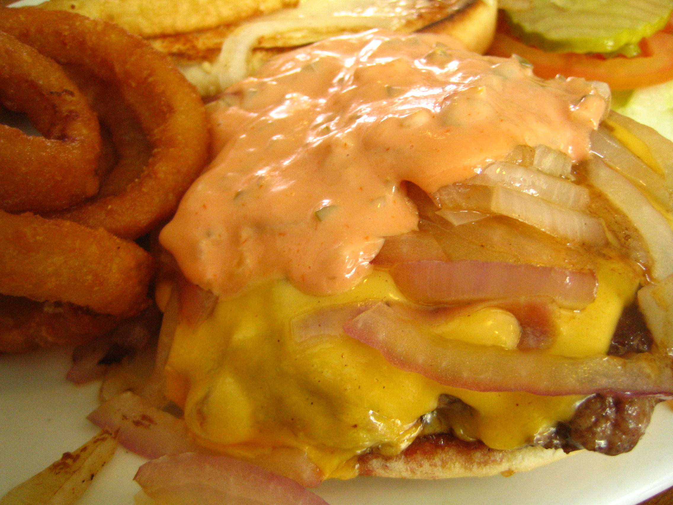 Cheeseburger topped with grilled onions and russian dressing as served at Bill's Place, San Francisco, California, USA. Russian dressing is a salad dressing invented in the United States in the late 19th century or early 20th century. Typically piquant, it is today characteristically made of a blend of mayonnaise and ketchup complemented with such additional ingredients as horseradish, pimentos, chives and spices